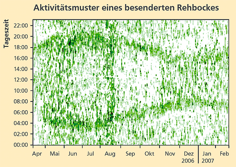 Typical daily activity pattern of male roe deer (Capreolus capreolus) inside and near Bavarian Forest National Park, Germany over the course of a year (tracked by GPS/radio collars, n=100)